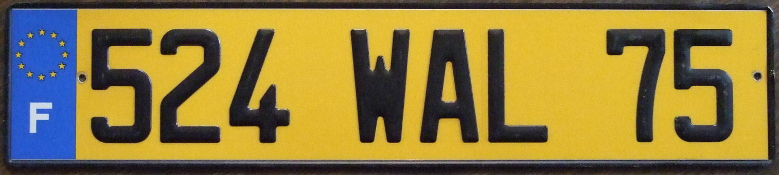 FRANCE EEC passenger plate yellow